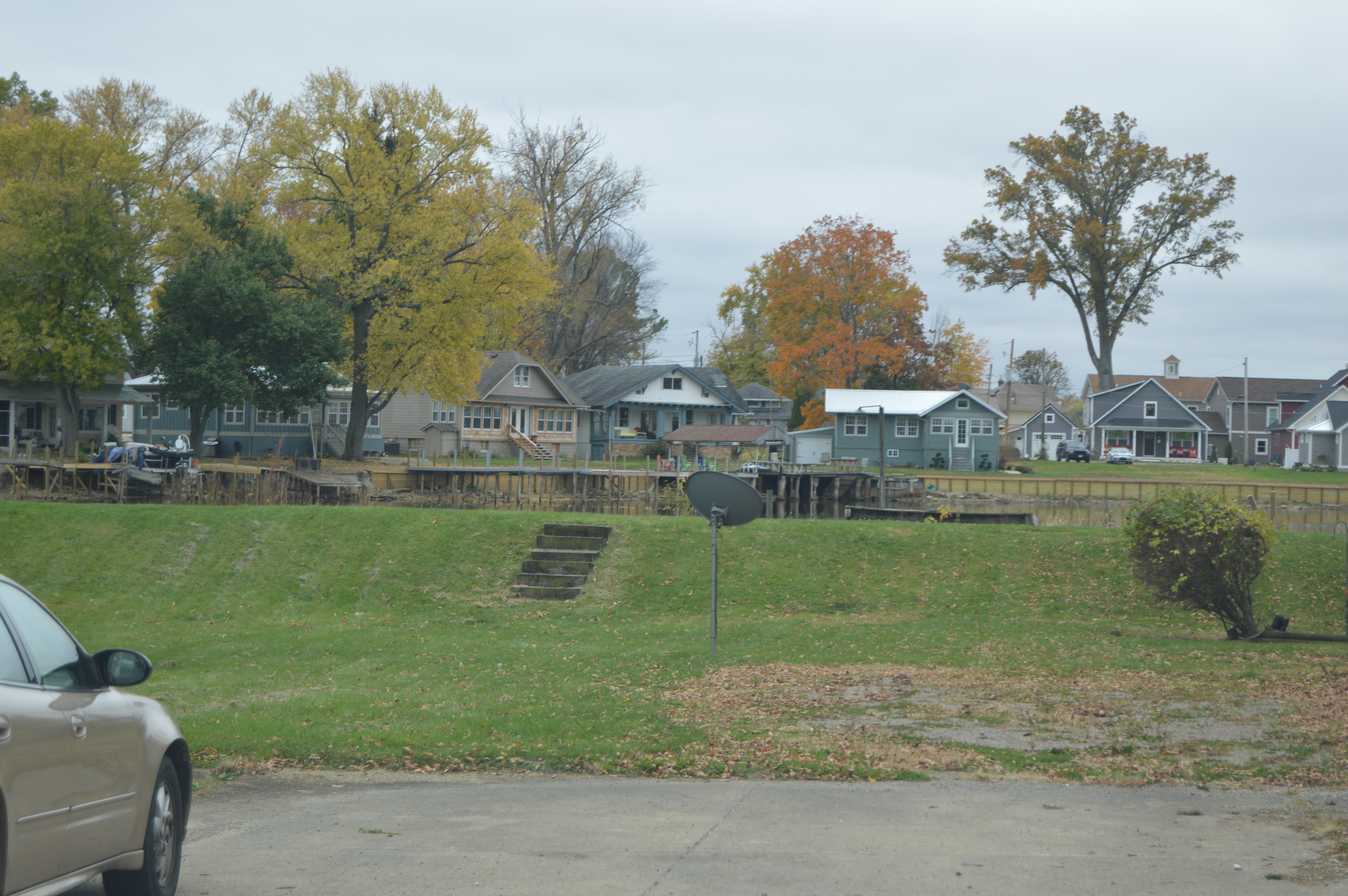 Houses on the southeastern side of Crane Lake, looking south-southeast from the junction of Union Avenue and Wood Street, in Buckeye Lake, Ohio, United States.